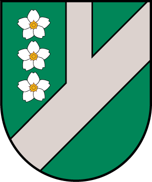 Coat of Arm of Pļaviņas municipality, LatviaLatviešu: Pļaviņu novada ģerbonis